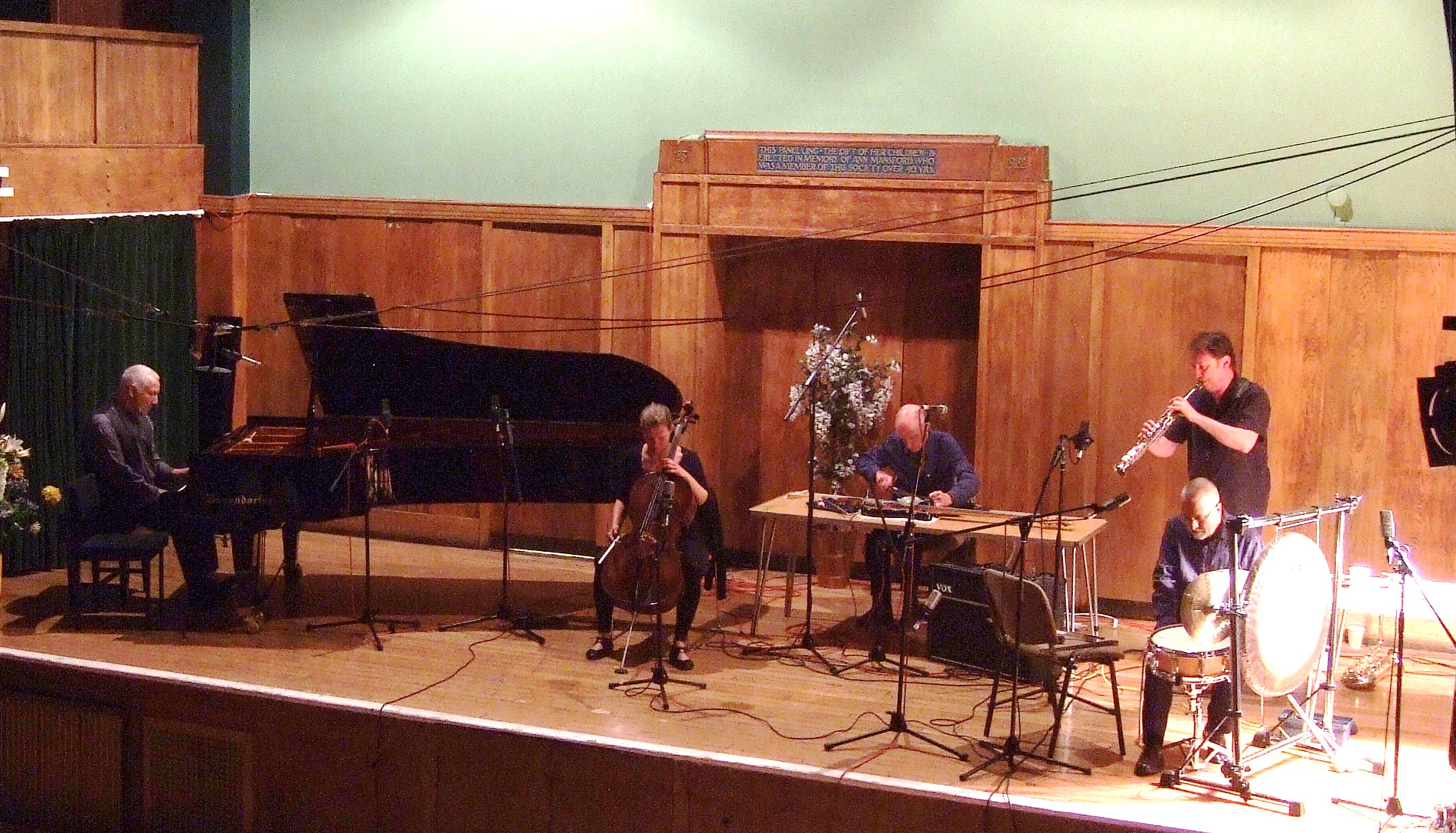 British improvisation group "AMM" performs at the Freedom of the City Festival '09: John Tilbury and Eddie Prevost with Christian Wolff (guitar), John Butcher (sax) and Ute Kanngiesser (cello)